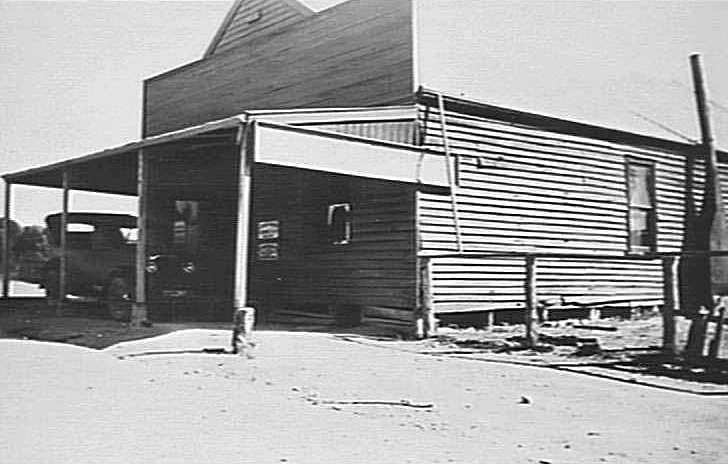 1940 - Boinka Streetscape and early car parked under Verandah